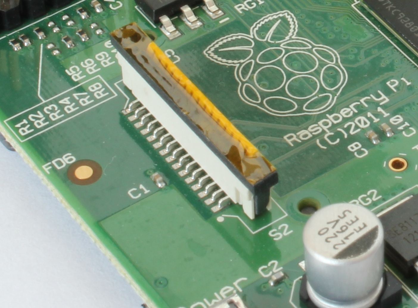 Part of photograph of Raspberry Pi single board computer; Display Serial Interface connector is shown